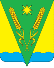 Coat of arms of Novovladimirovskaya, Krasnodar Krai, Russia.